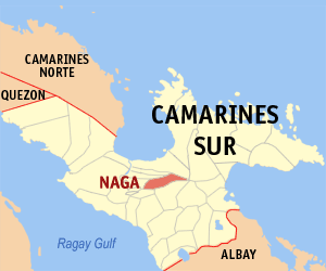 Map of Camarines Sur showing the location of Naga Background of Naga The 3rd Philippine city granted the title of 'Royal' (after Manila and Cebu) by King Philip II and the Ecclesiastical seat of the Bishop of the entire Bicol region and almost half of Southern Luzon for three centuries centuries, Naga, or formerly known as the Royal City of Nueva Caceres (New Caceres), is the Queen City of Bicol. The title of 'Queen City' is used in the context of the historical significance. For hundreds of years Naga has been the center of trade, education, religion, culture and healthcare in the region. This notion is further re-enforced since the Queen and Principal Patroness of Bicol, the miraculous image of Our Lady of Penafrancia, resides in Naga.